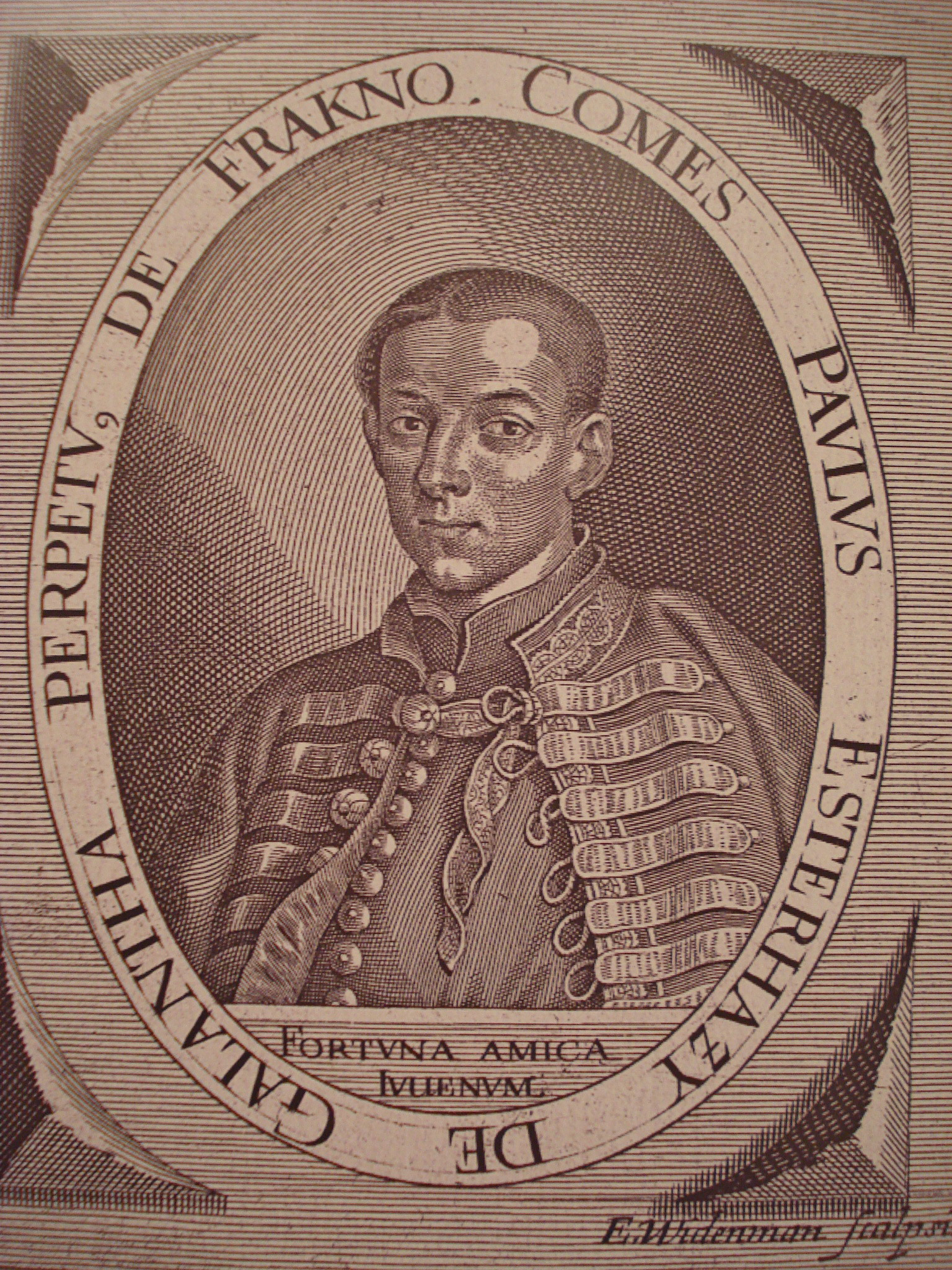 Paul Esterhazy of Galantha, Hungarian prince (Fürst) /1635-1713/ - Elias Widemann work